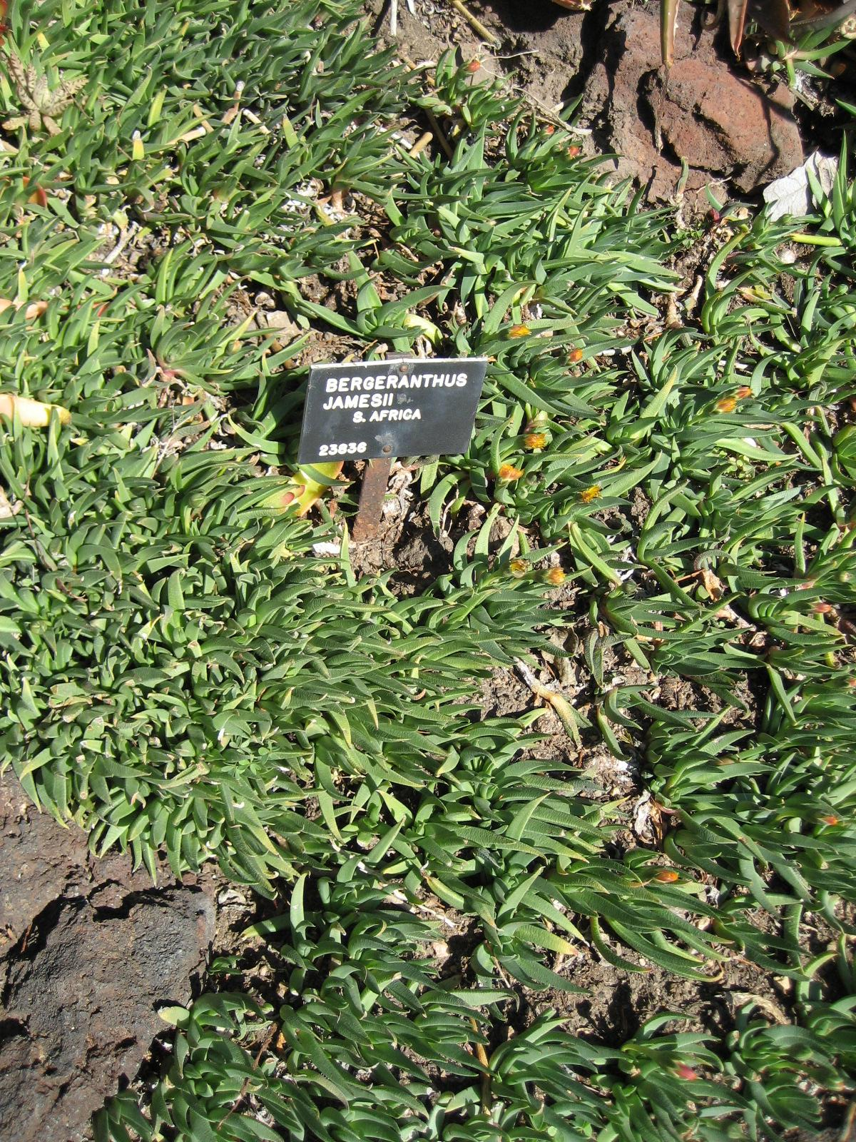 Photographed at Huntington Gardens (Los Angeles) in March